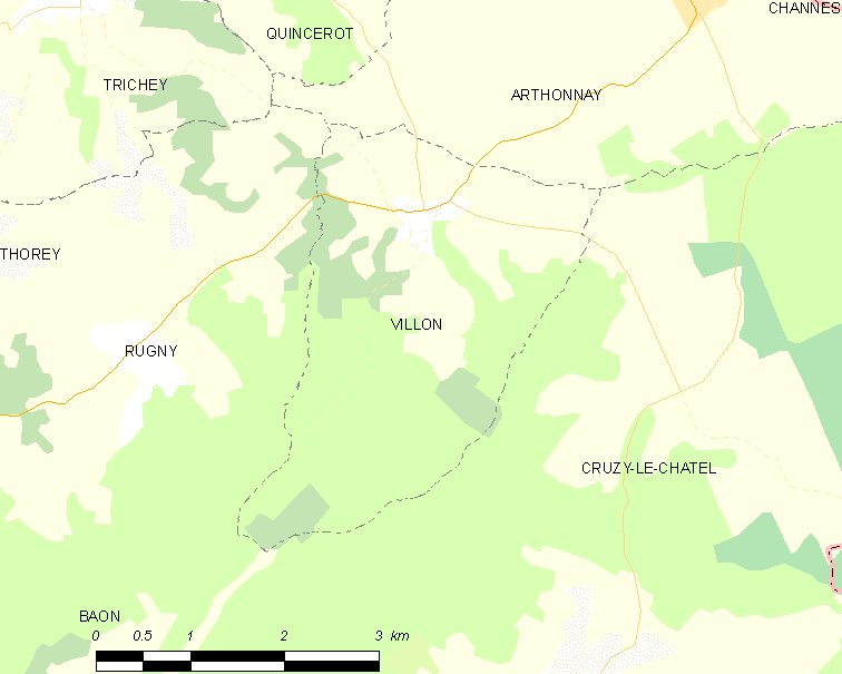 Map of French municipality Villon